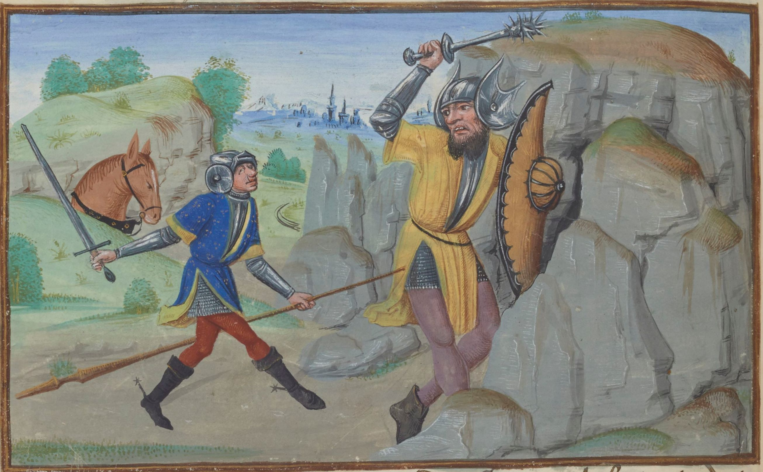 Geoffroy la Grand Dent (Geoffrey Big-Tooth) fights against the giant Grimault and follows him into a mountain in Northumberland, miniature from a manuscript of Coudrette's Roman de Melusine. (BNF ms fr 24383, fol 33v)